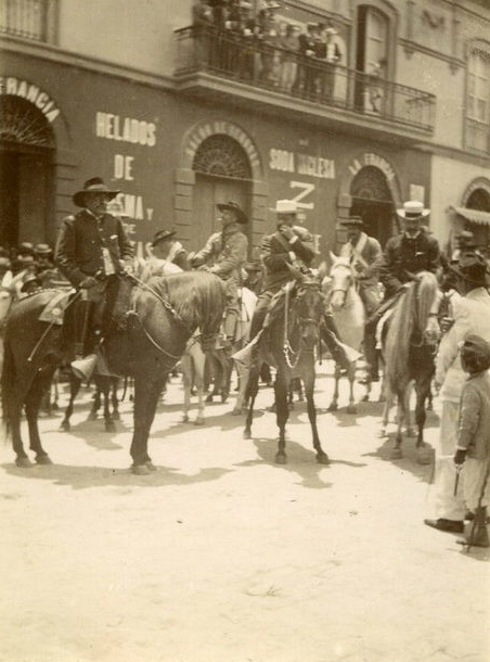 Cipriano Castro and his soldiers in Caracas, 1900.